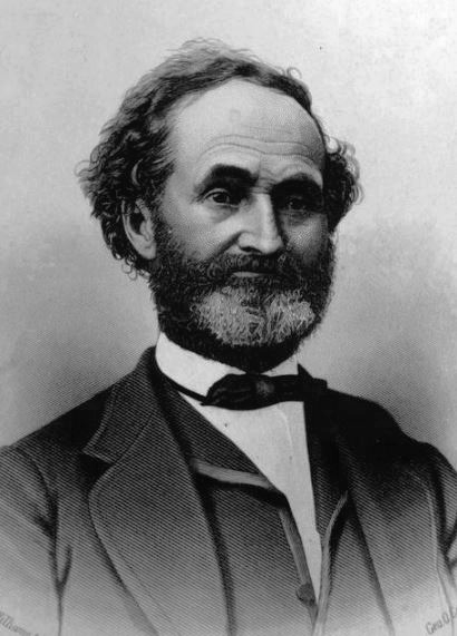 John Pack was a Captain in the Nauvoo Legion, Senior President of the Eighth Quorum of the Seventy of The Church of Jesus Christ of Latter-day Saints, member of the Council of Fifty (originally set up to govern the earth and Kingdom of God in the Millenium and the Savior will organize it again) and noted Pioneer. His image is on the This is The Place monument.